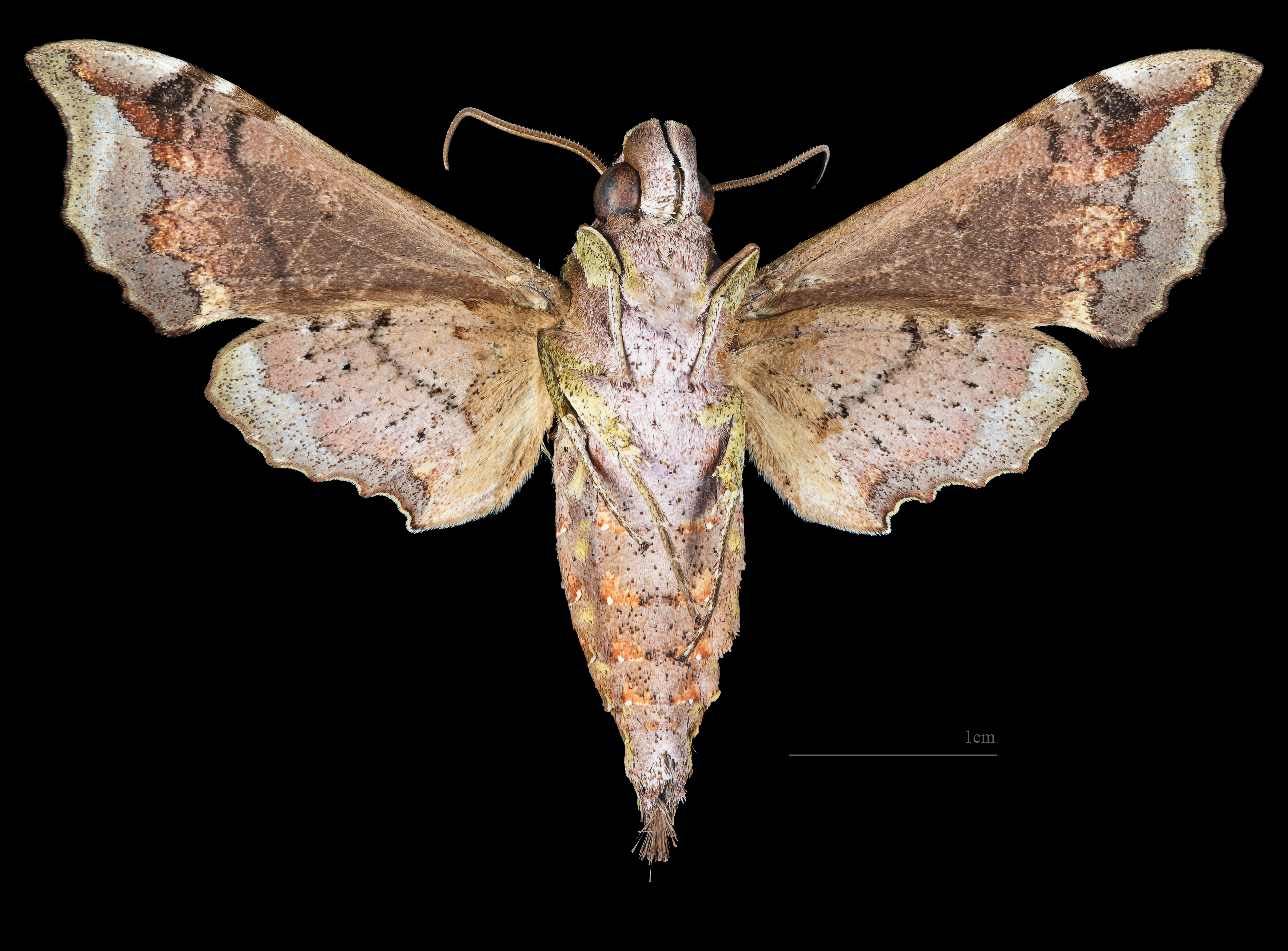 Enpinanga assamensis - △ Ventral side Collection of the Mathematician Laurent Schwartz